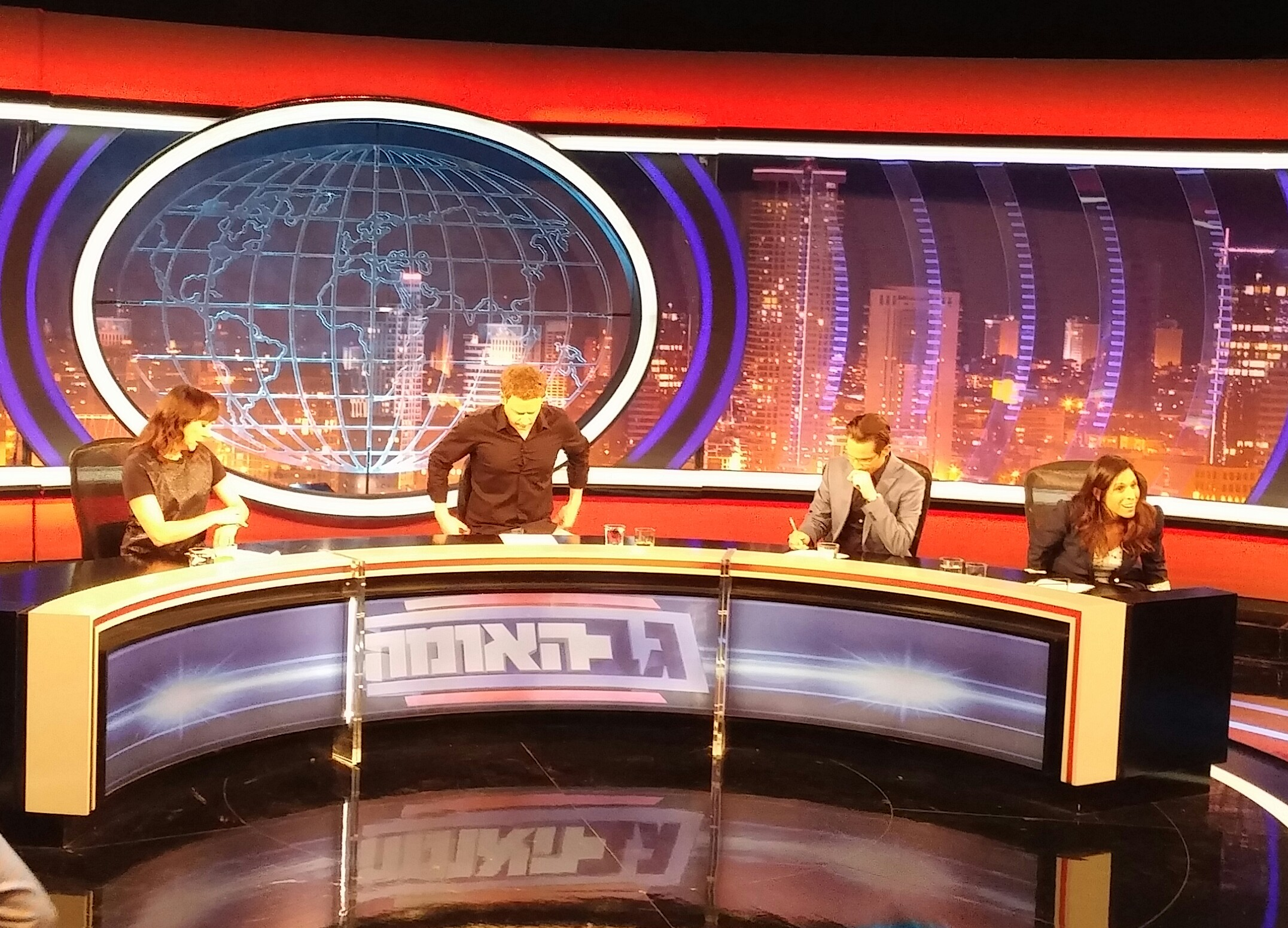 "Gav Ha'uma", a satirical Israeli television show. Filmed in Herzliya, 2015.